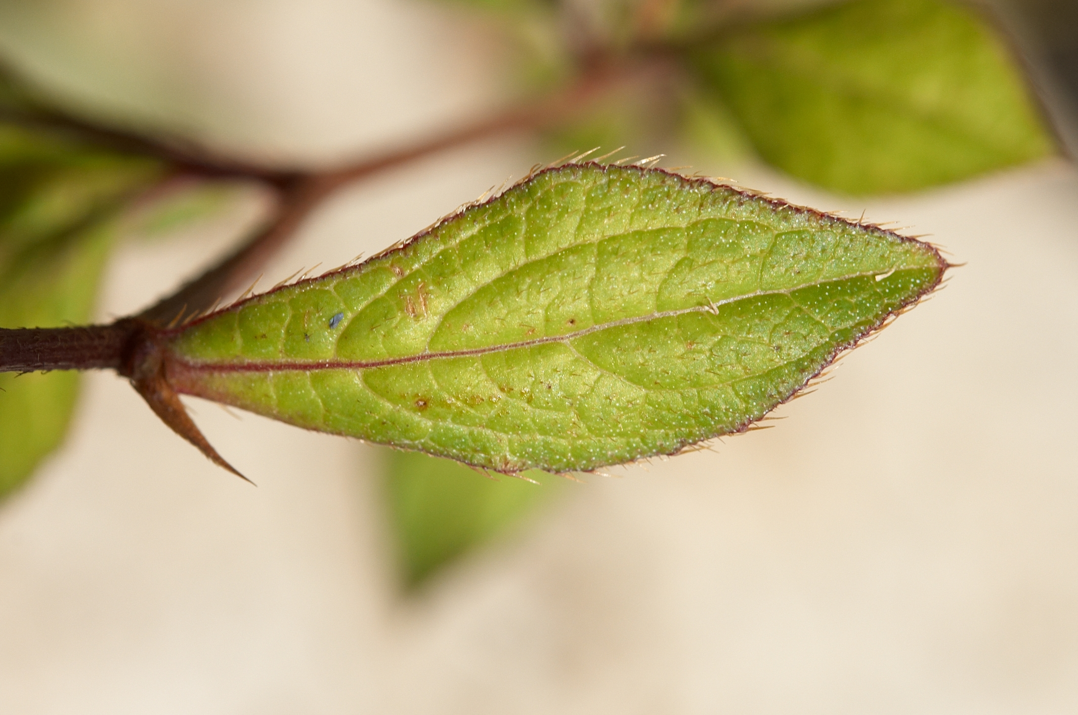 Ceratostigma willmottianum